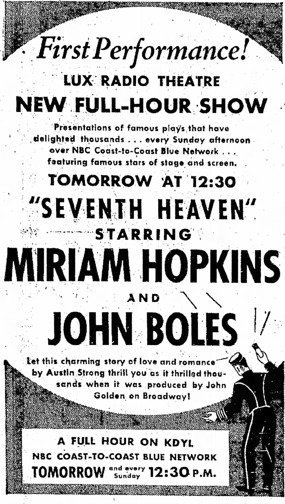 Ad for the radio program Lux Radio Theatre. The presentation was to be "Seventh Heaven".